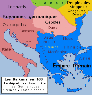 Historic map of Balkan peninsula, year 500